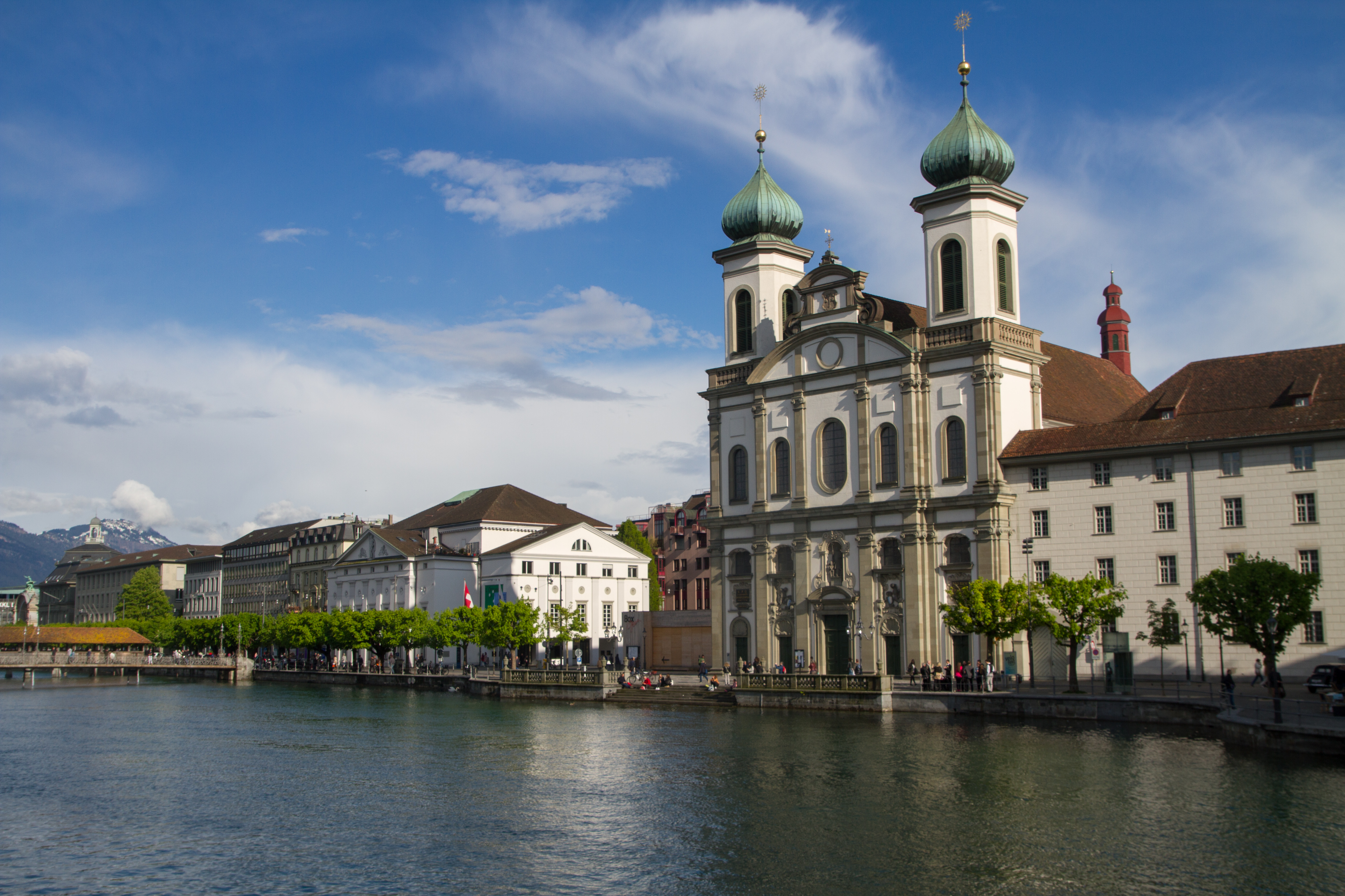 Jesuitenkirche Luzern